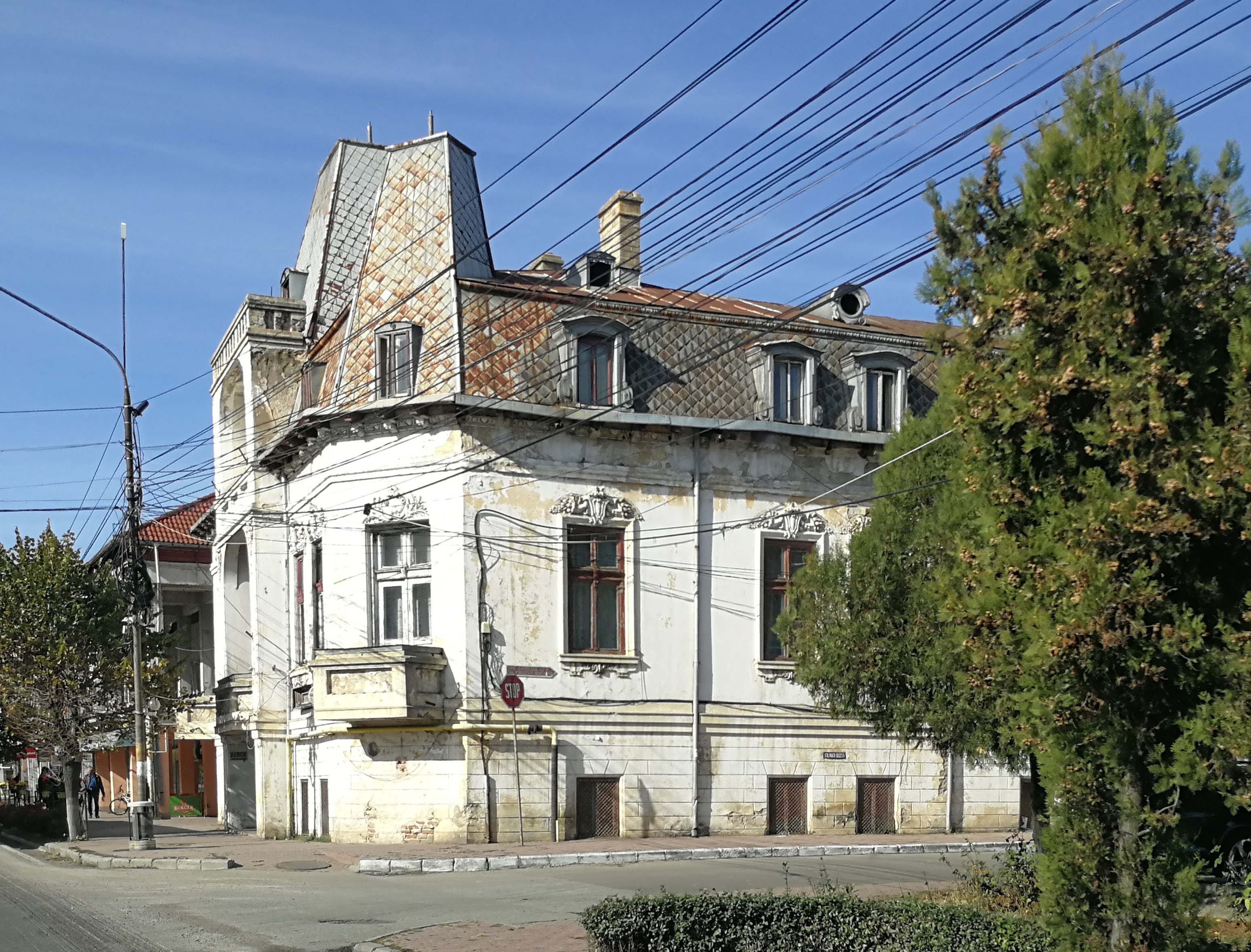 Former library in Balș, Olt County, Romania